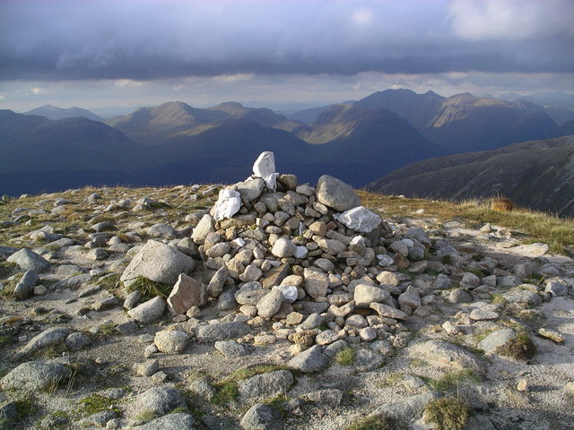 Glas Bheinn Mhor : Munro No 145. The 997m summit cairn. Behind, in the valley is Glen Etive, and beyond are the mountains on the south side of Glencoe.